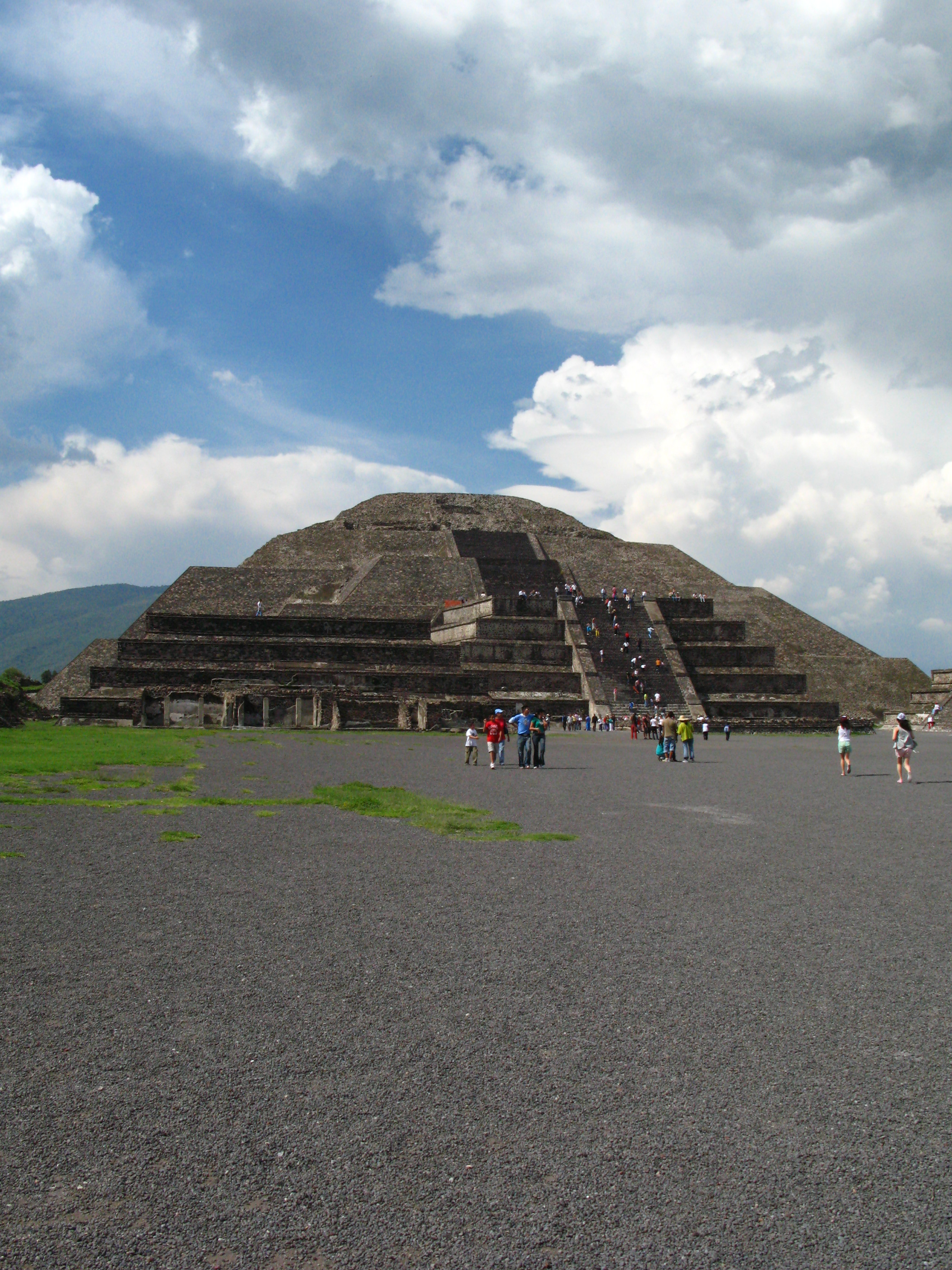 The Pyramid of the Moon in Teotihuacan, México